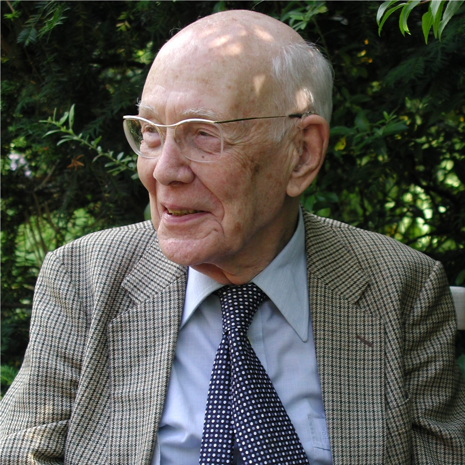 Dietrich Gerhardt, Hamburg 2003